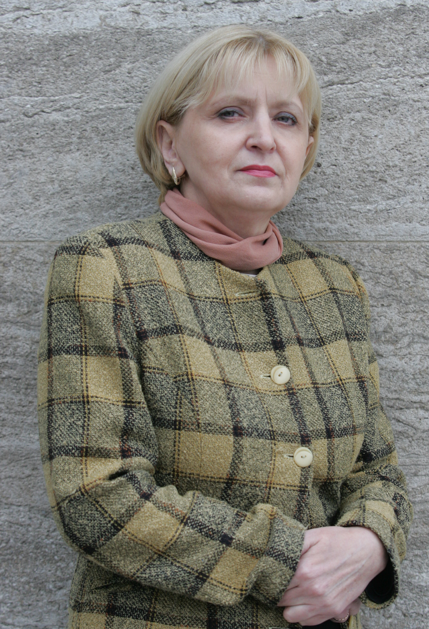 Wanda Dybalska, Polish journalist